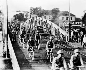 Japanese troops enter Saigon by bicycle.